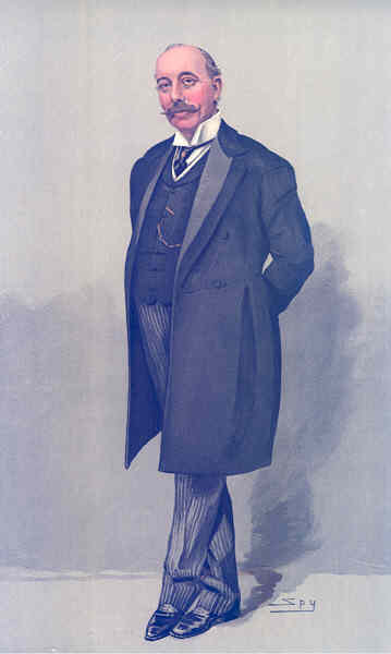 Caricature of Sir Walter Roper Lawrence (1857-1940), later 1st Baronet, of Sloane Gardens. Caption read "The Prince's cicerone".